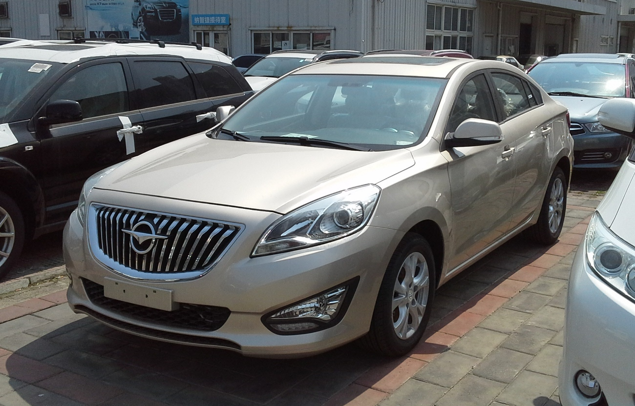 Haima M5 photographed in Beijing, China.